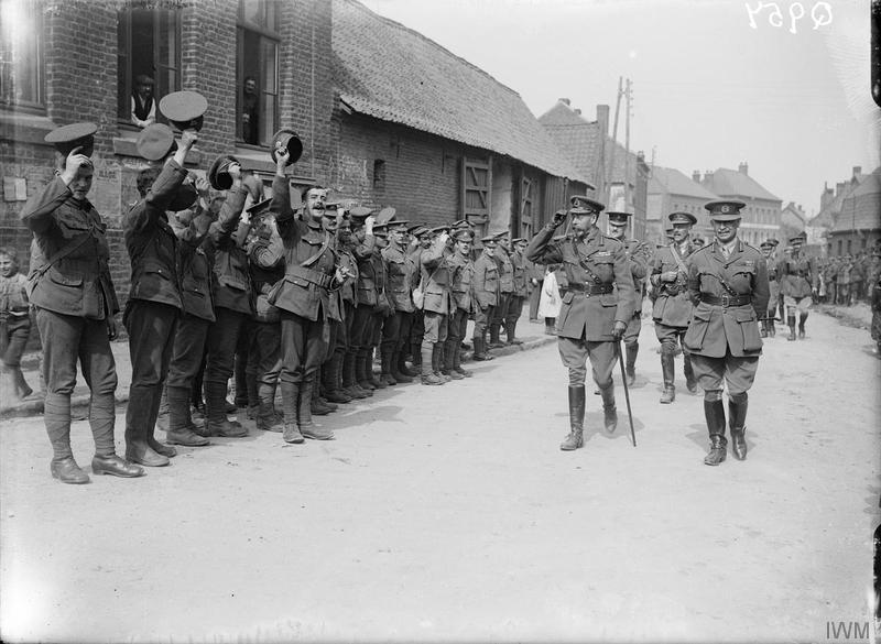 The Battle of the Somme, July-november 1916 King George V with Major-General Havelock Hudson (commanding 8th Division) walking through the streets of Fouquereuil, where the King was cheered by men of the 25th Infantry Brigade, 11th August 1916.